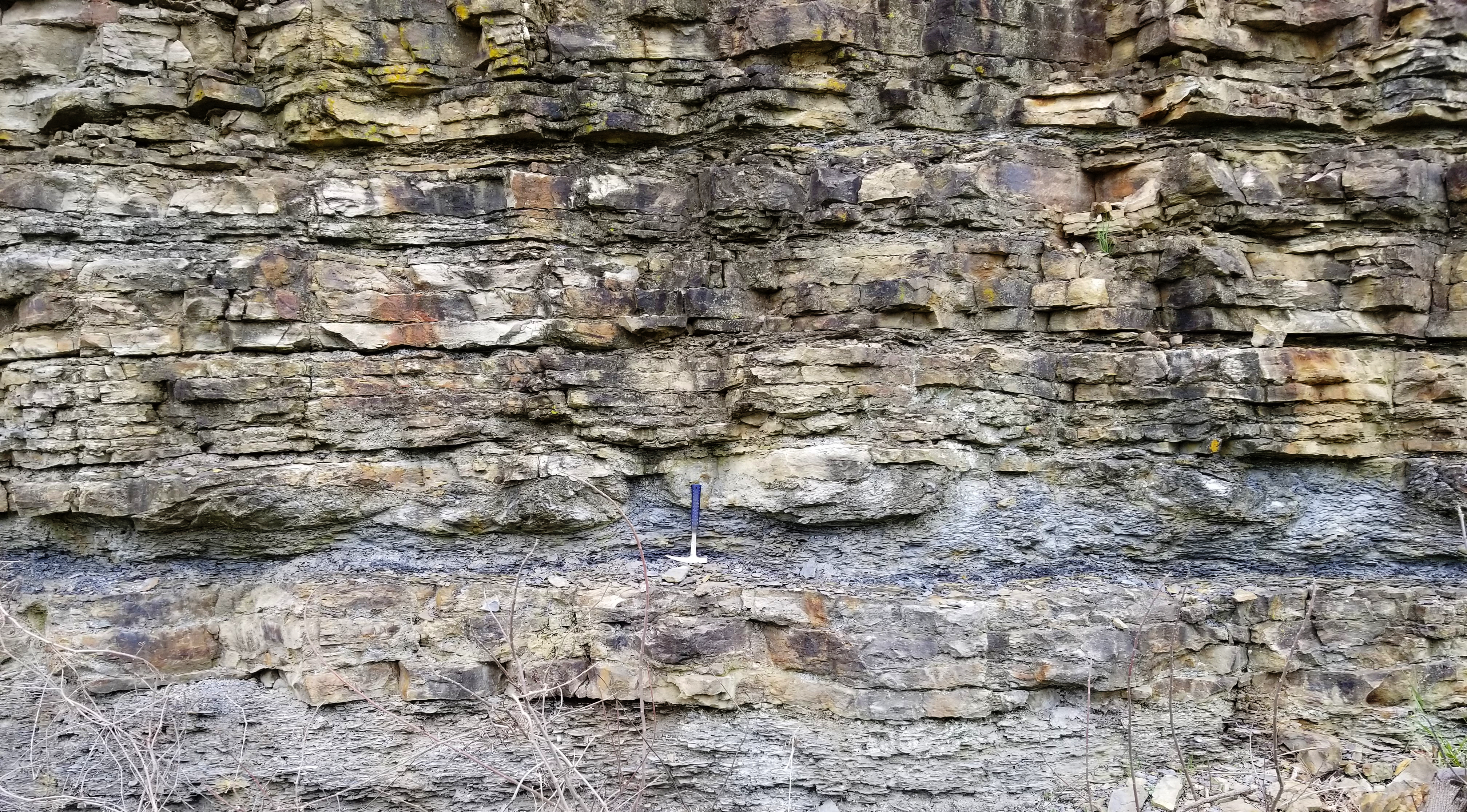 Cane Hill Member of the Hale Formation in a roadcut along Interstate 49 in Arkansas